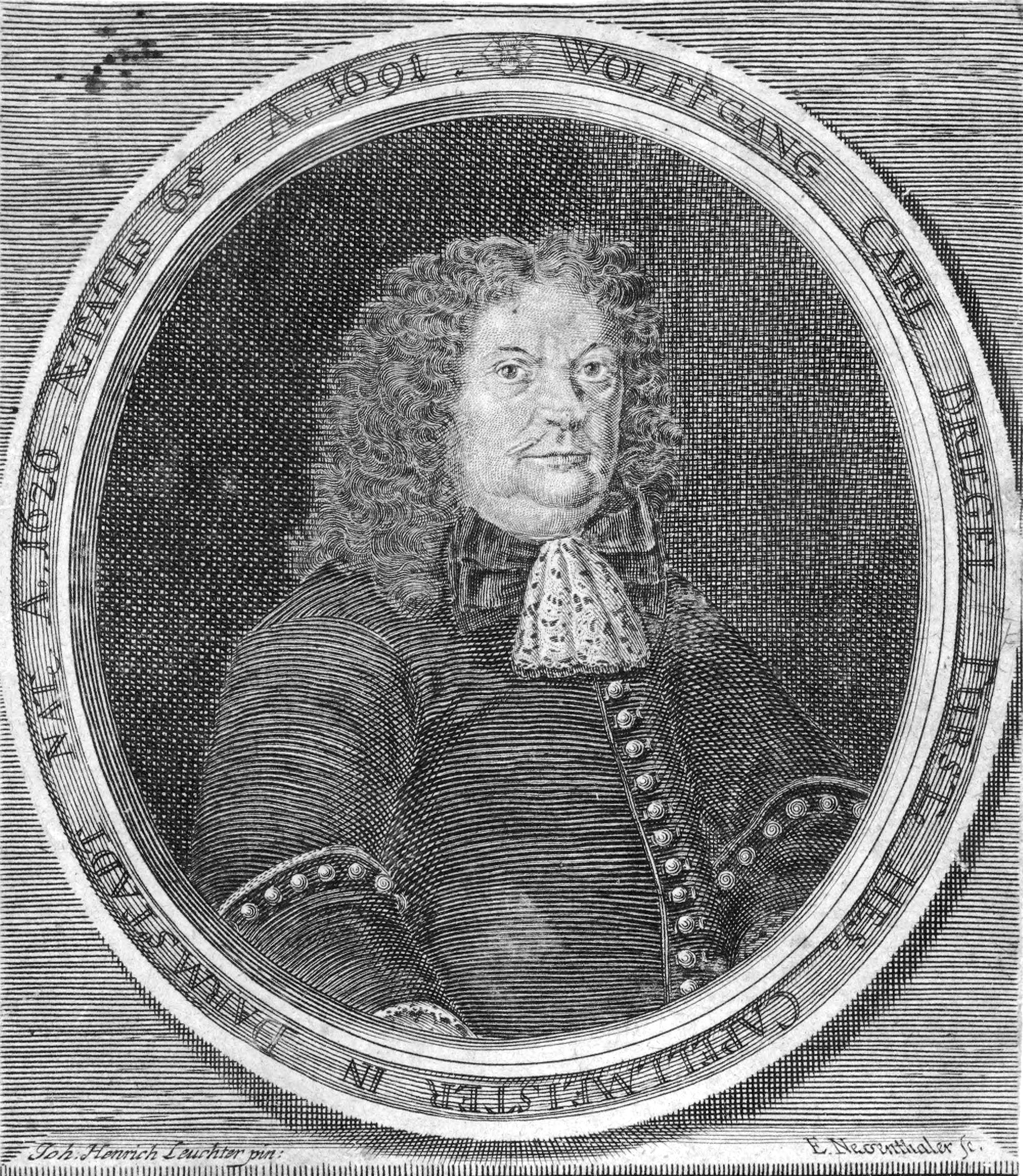 Depicted person: Wolfgang Carl Briegel